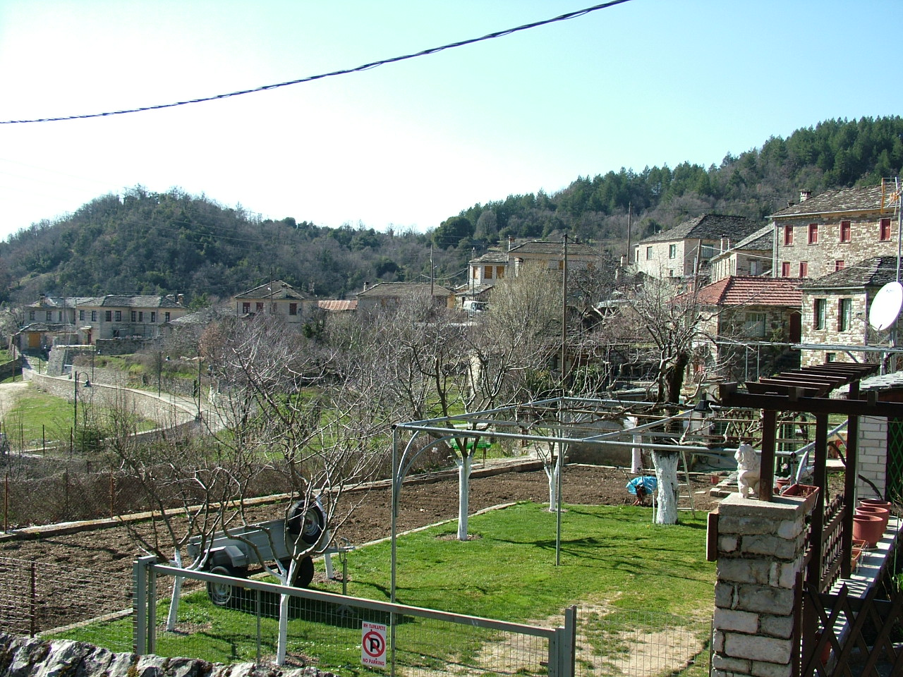 Papingo, Epirus, Greece